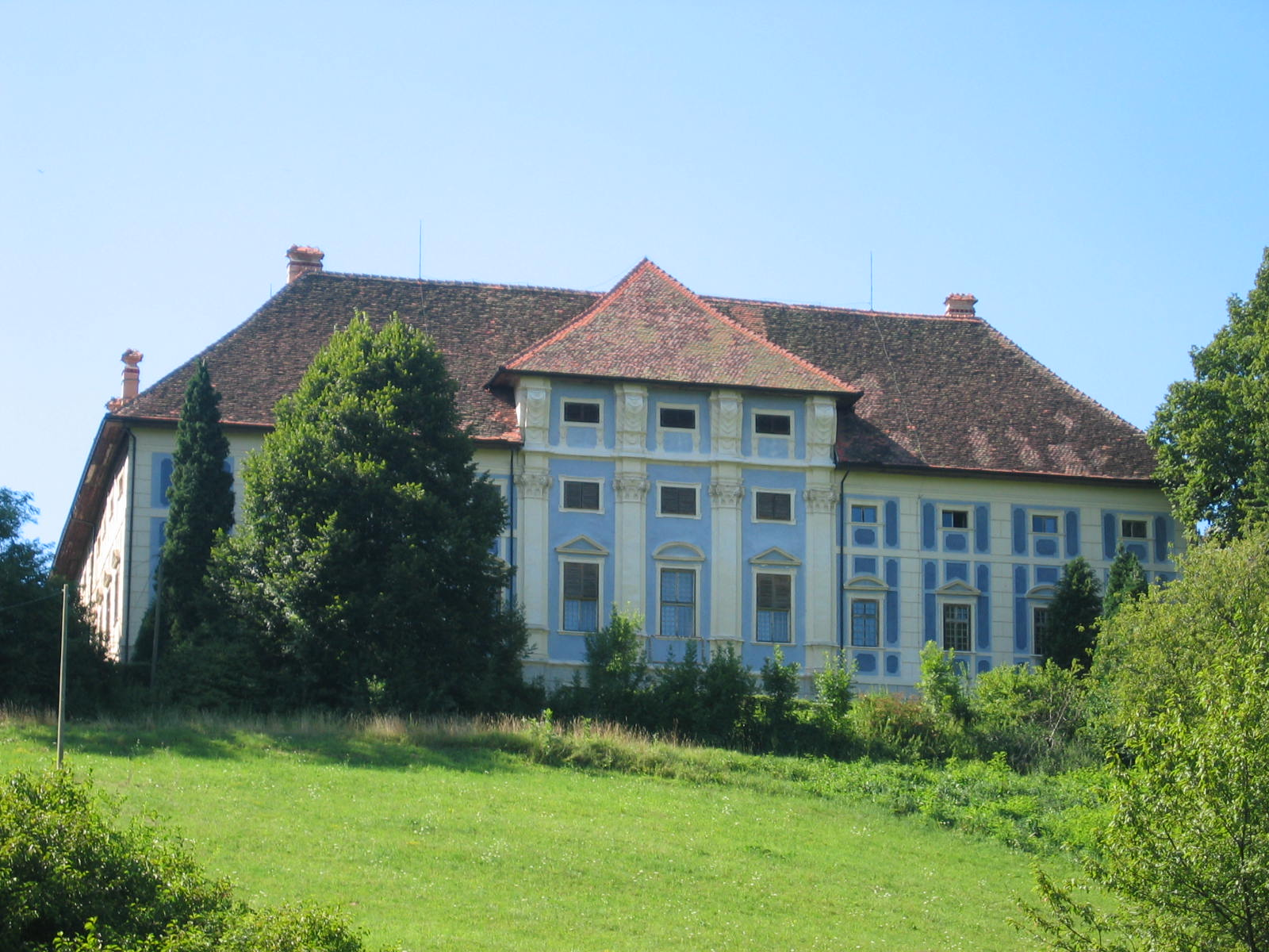 Štatenberg mansion near Makole, Slovenia